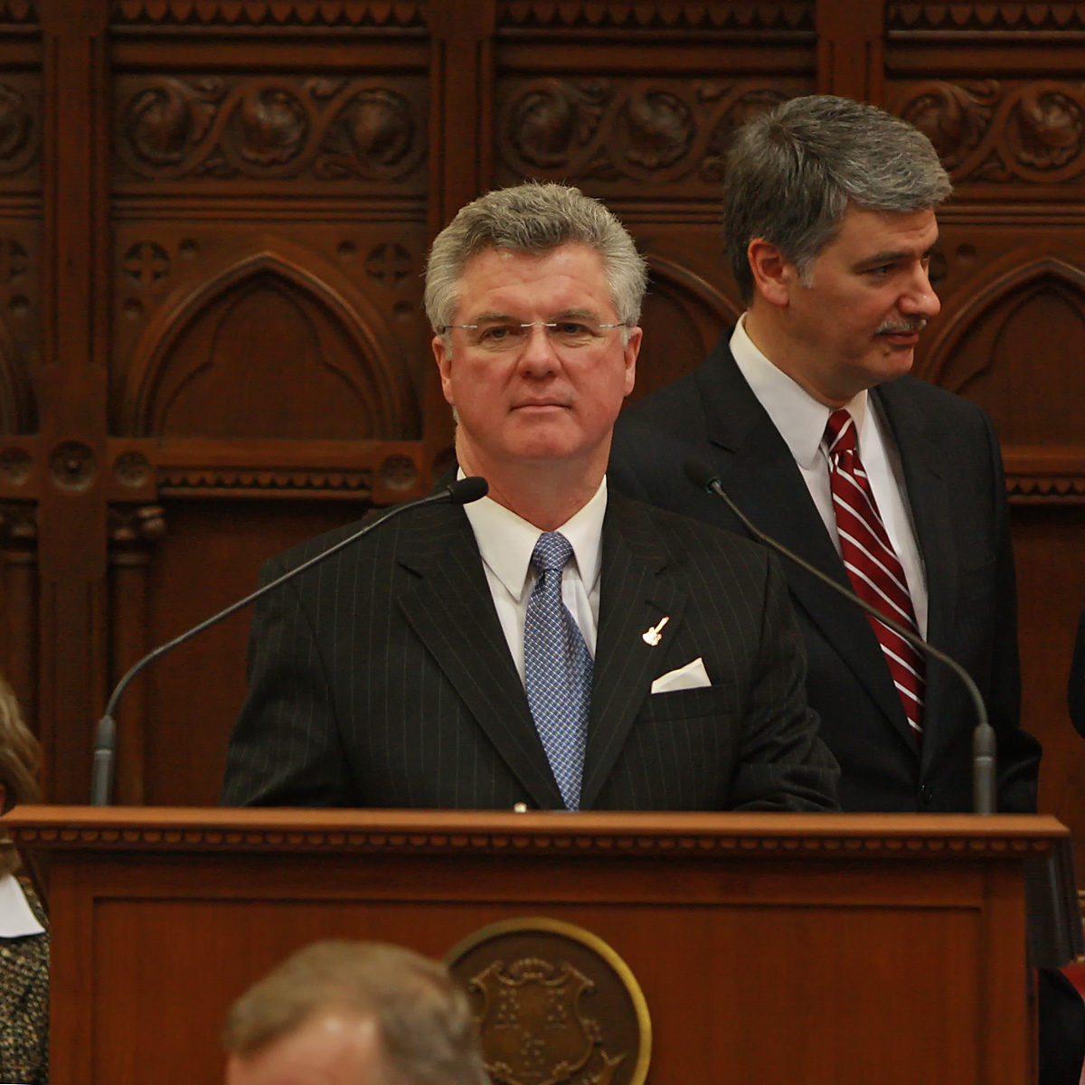 Christopher G. Donovan, Speaker of the Connecticut (USA) House of Representatives, on the opening day of the 2009 Legislative Session